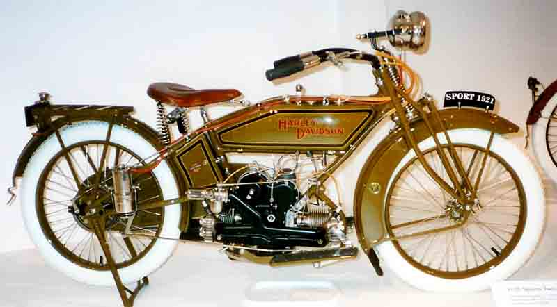 Harley-Davidson Sport 558 cc 1921